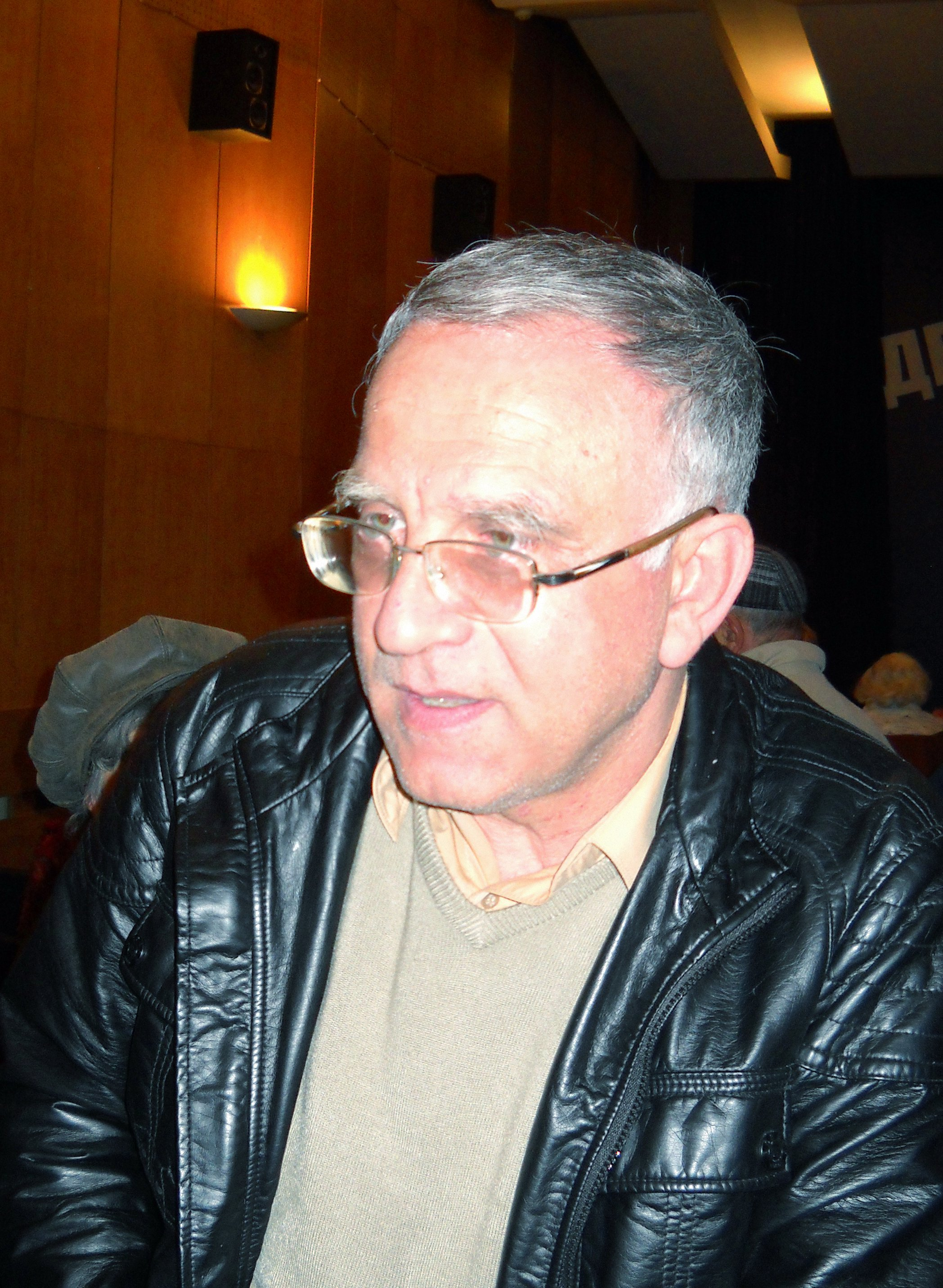 Bulgarian sociologist Tsvetosar Tomov